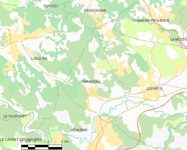 Map of French municipality Taradeau